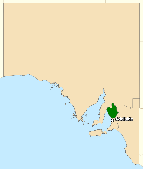 The Division of Wakefield (dark green) in the state of South Australia. This image incorporates data that is: © Commonwealth of Australia (Australian Electoral Commission) 2014